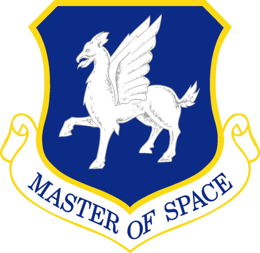 Emblem of the 50th Space Wing, Air Force Space Command, United States Air Force Blazon: Azure, an Opinicus passant argent.